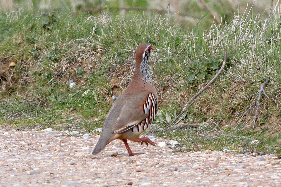 Red-legged Partridge (Alectoris rufa) at Dungeness, England